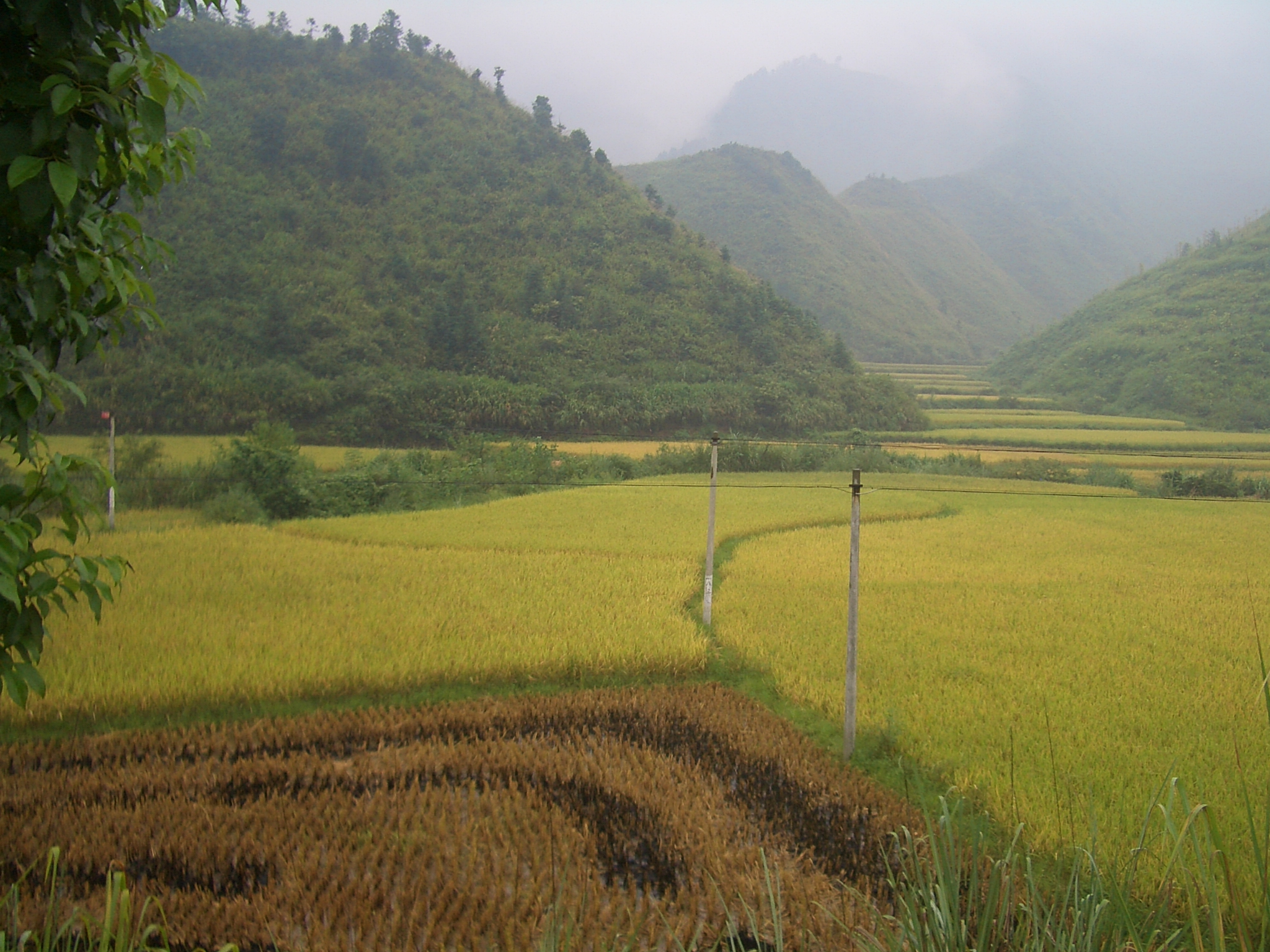 Rice fields in Tongshan County, Hubei, in one of many valleys in Mufu Mountains. Picture taken from G106 east of Tongshan.